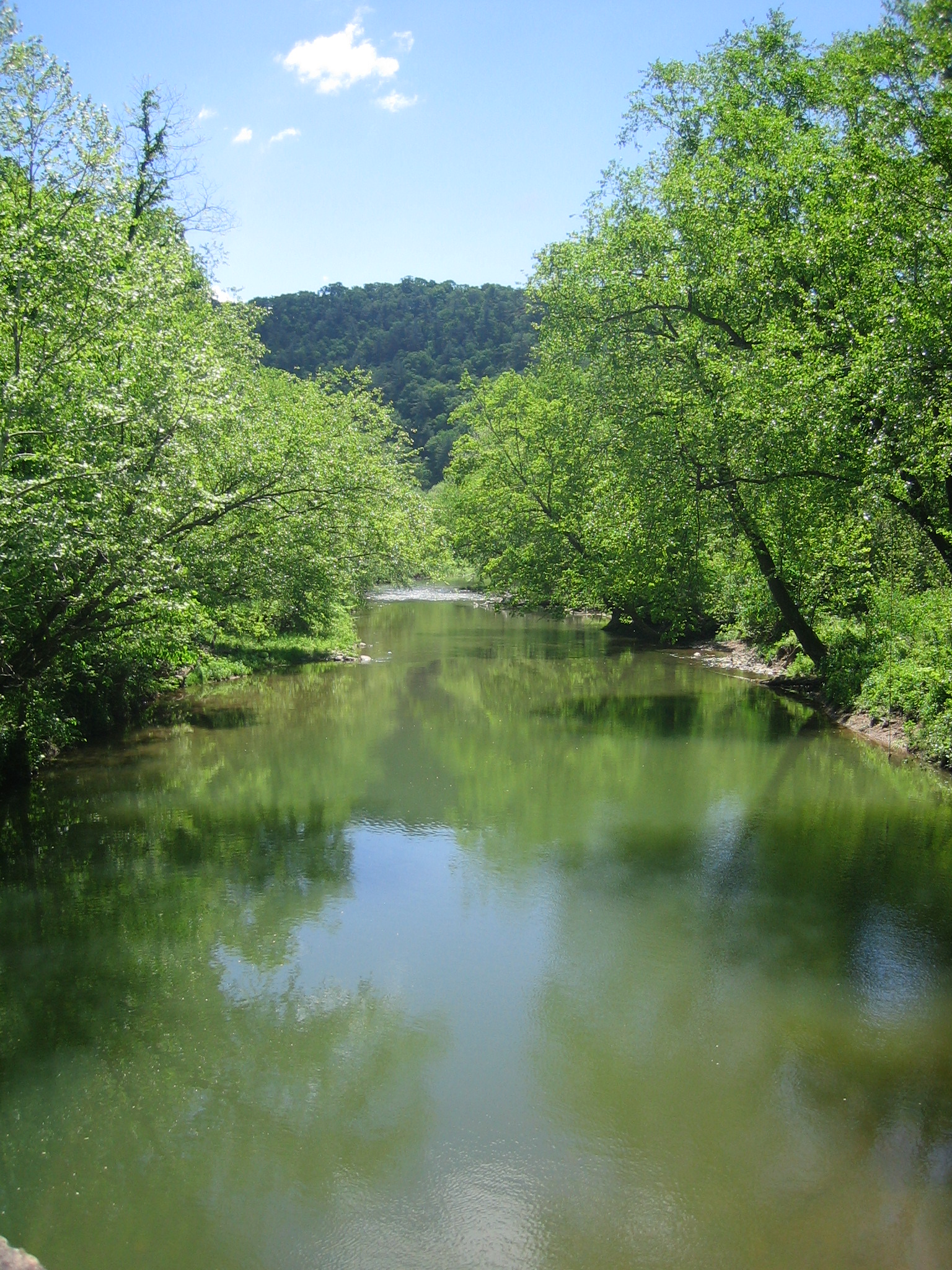 View north of the Little Cacapon River from the Okonoko-Little Cacapon Road (CR 2/7) one-lane bridge between Little Cacapon and Neals Run.